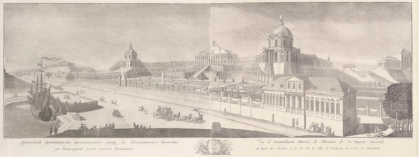 prospect oranienbauma